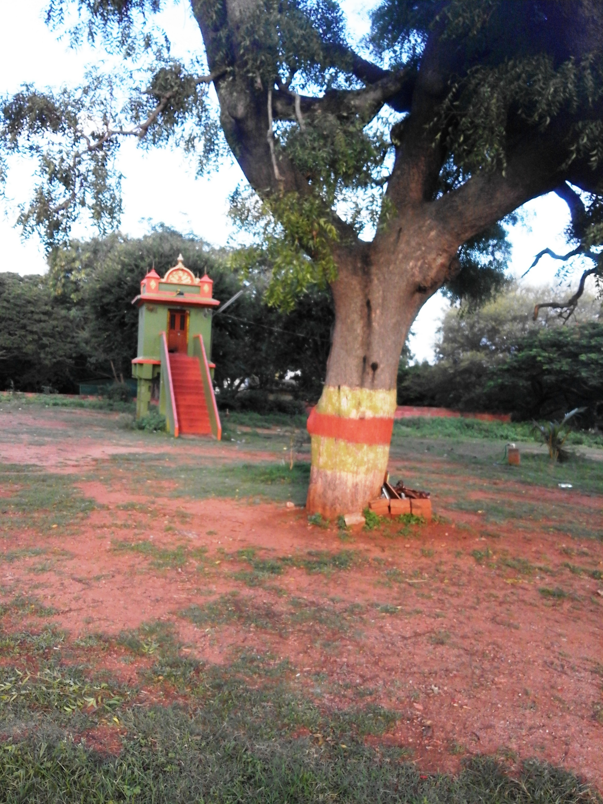 Mysore district, Karnataka state, India